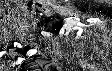 Victims of Marzabotto massacre, 1944